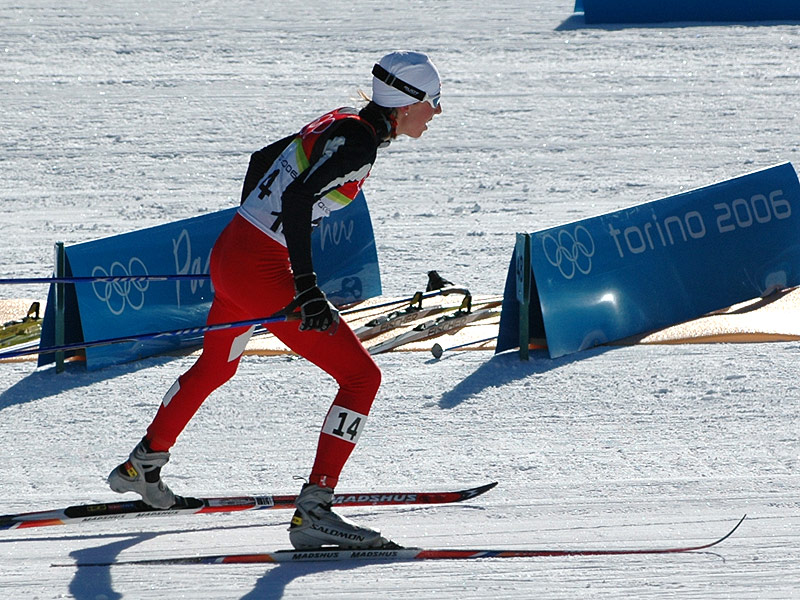 Kristin Størmer Steira at the 2006 Winter Olympics in Torino.